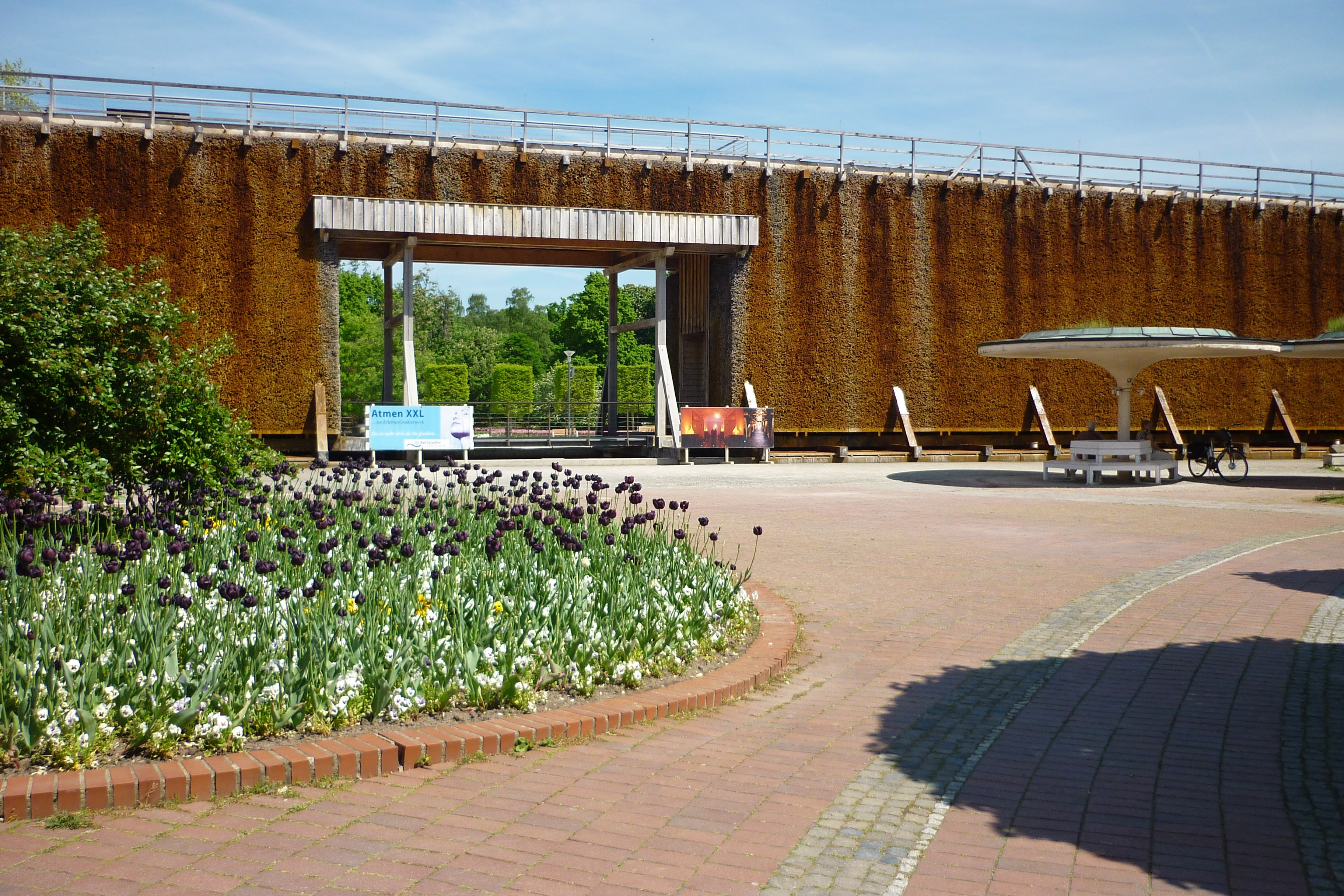 Bad Salzuflen (Germany): new graduation tower.